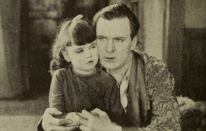 Still from the American film A Prince There Was (1921) with Peaches Jackson and Thomas Meighan, on page 66 of the February 1922 Photoplay.